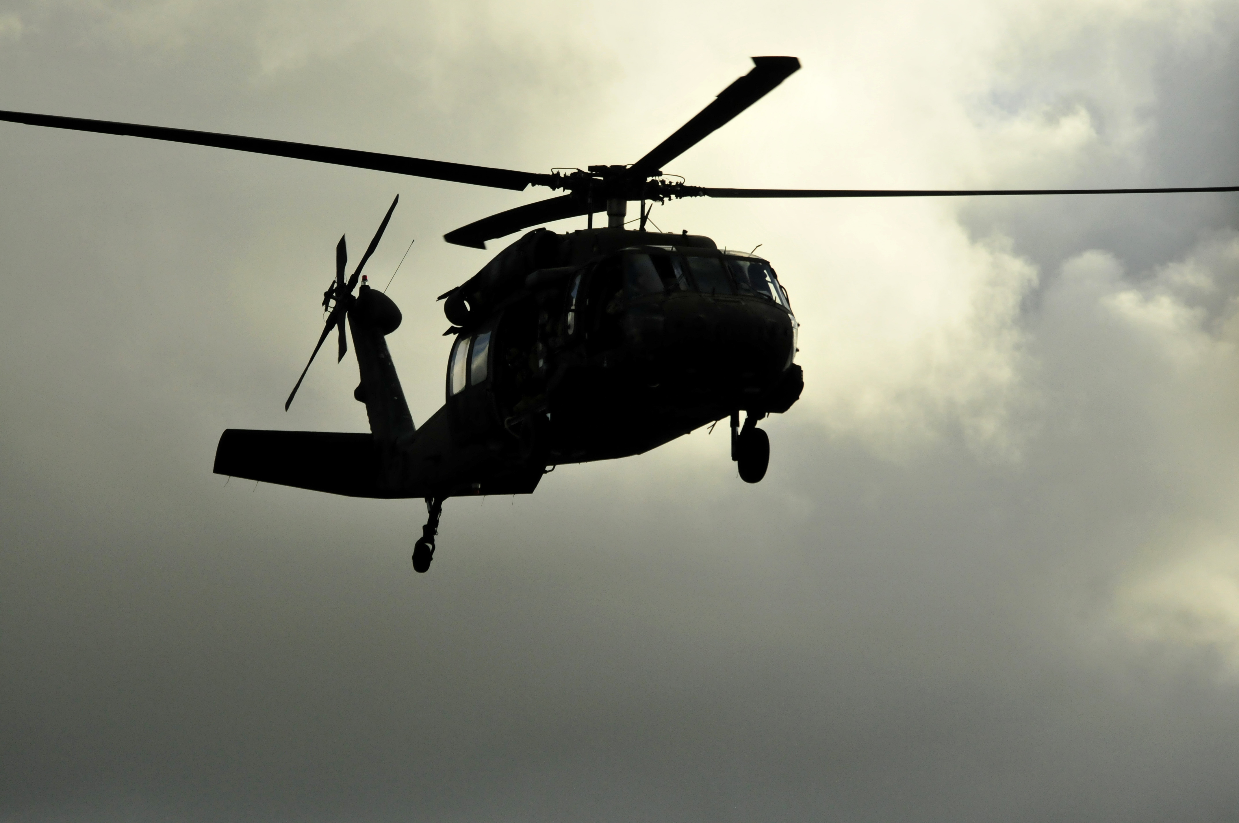 A U.S. Army UH-60 Black Hawk helicopter assigned to Bravo Company, 2nd Battalion, 25th Aviation Regiment, 25th Combat Aviation Brigade, prepares to drop Navy divers with the U.S. Navy SEAL Delivery Vehicle Team 1, Naval Special Warfare Group 3, in the water during helocast training at Marine Corps Air Station Kaneohe Bay, Hawaii, June 18, 2013. (U.S. Army photo by Capt. Richard Barker/Released)